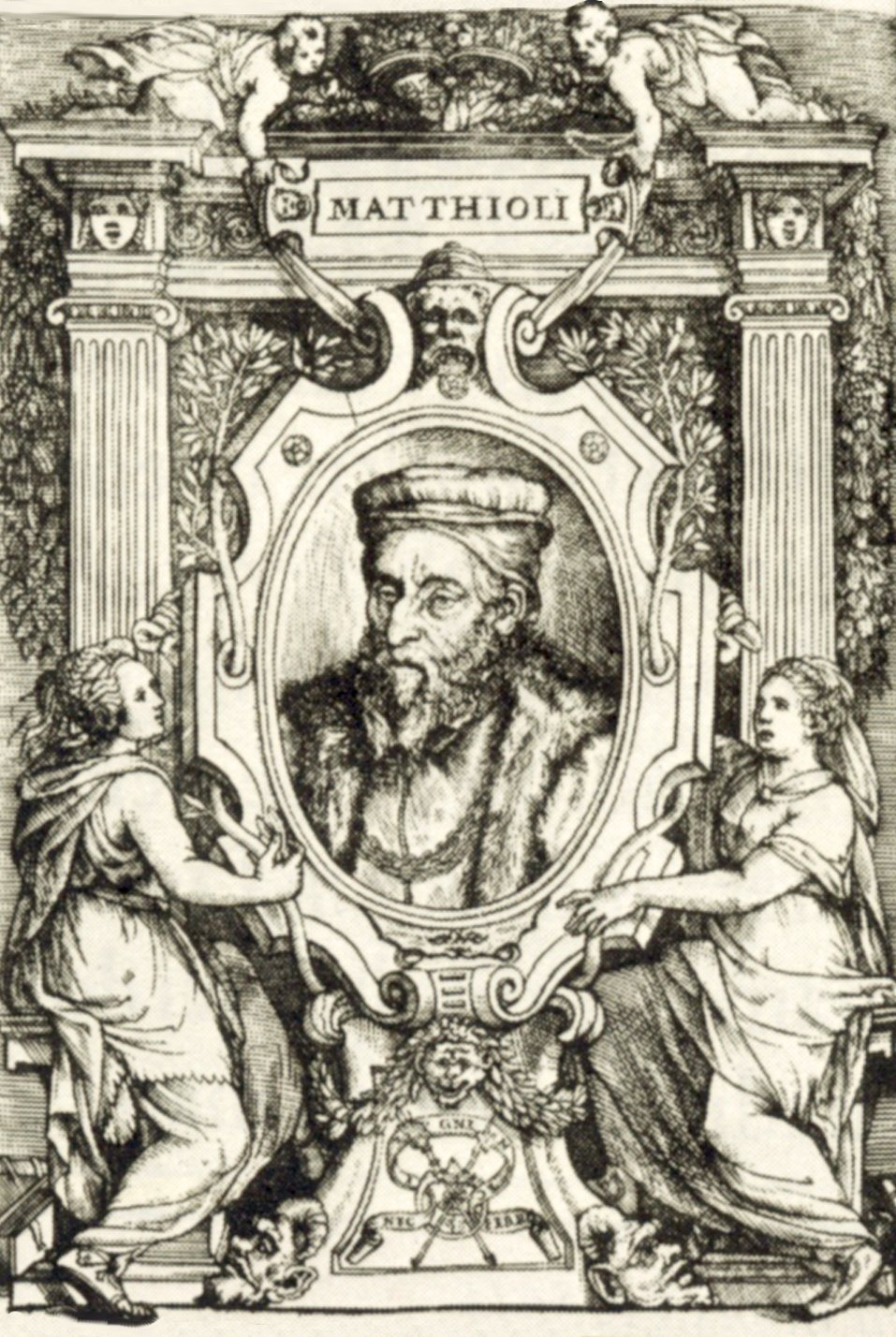 Pietro Andrea Mattioli by Melantrich